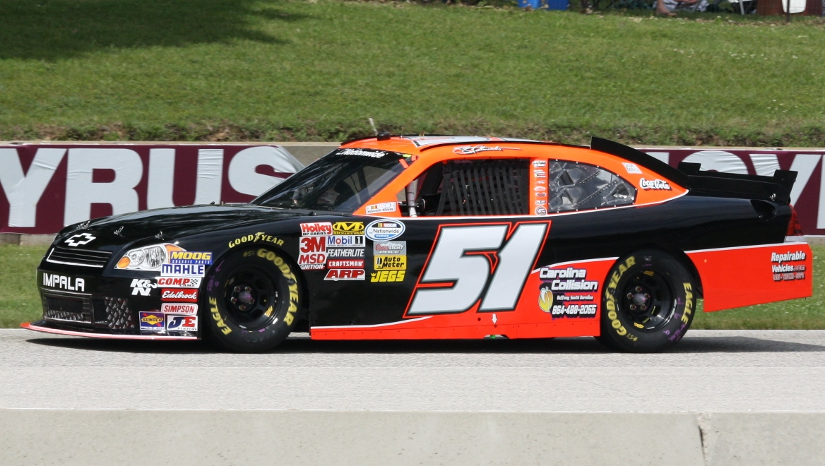 NASCAR driver Jeremy Clements racing his stock car at Road America at the 2011 Bucyros 200 Nationwide Series race.